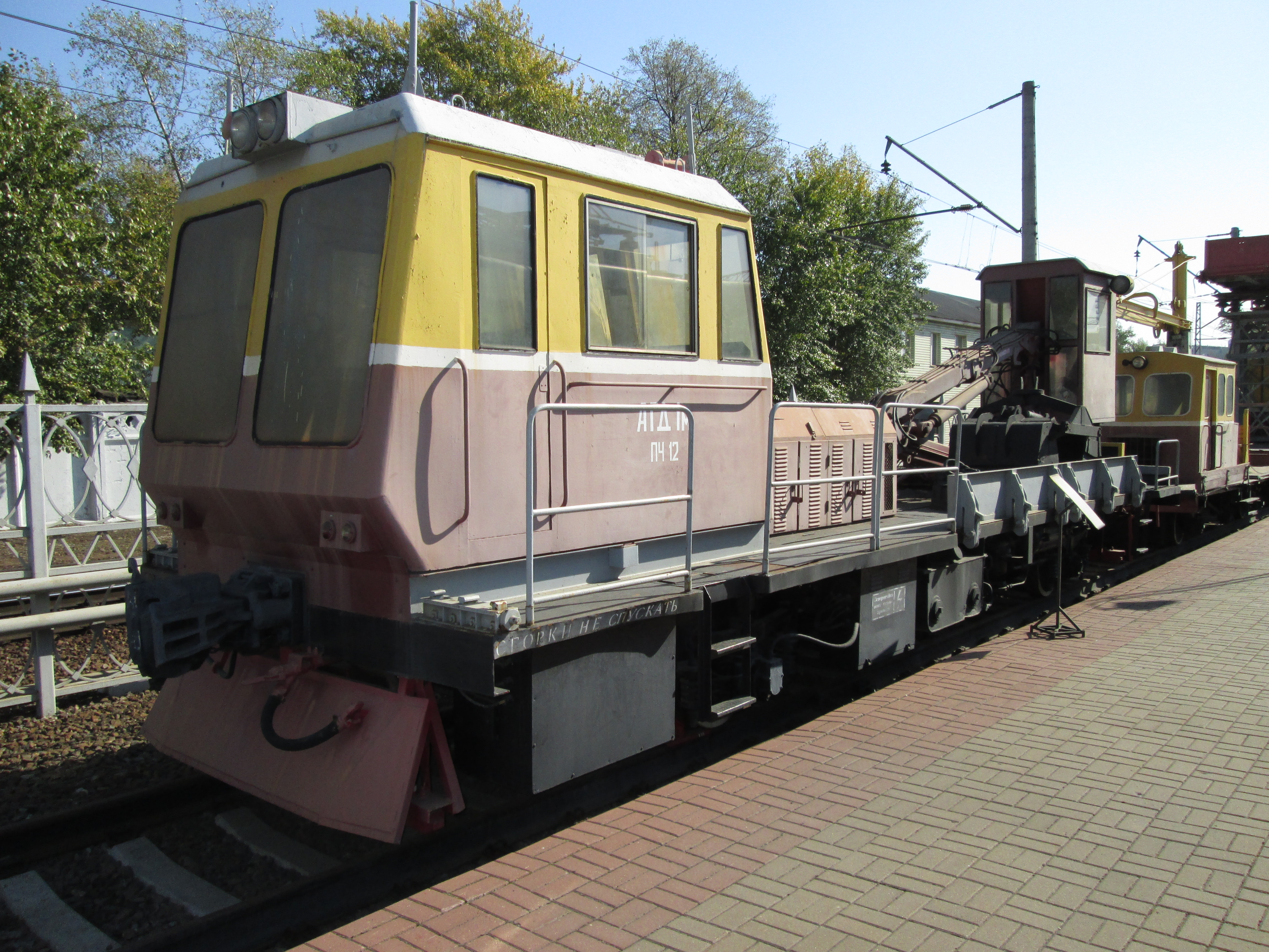 Cargo diesel motor trolley AGD-1M